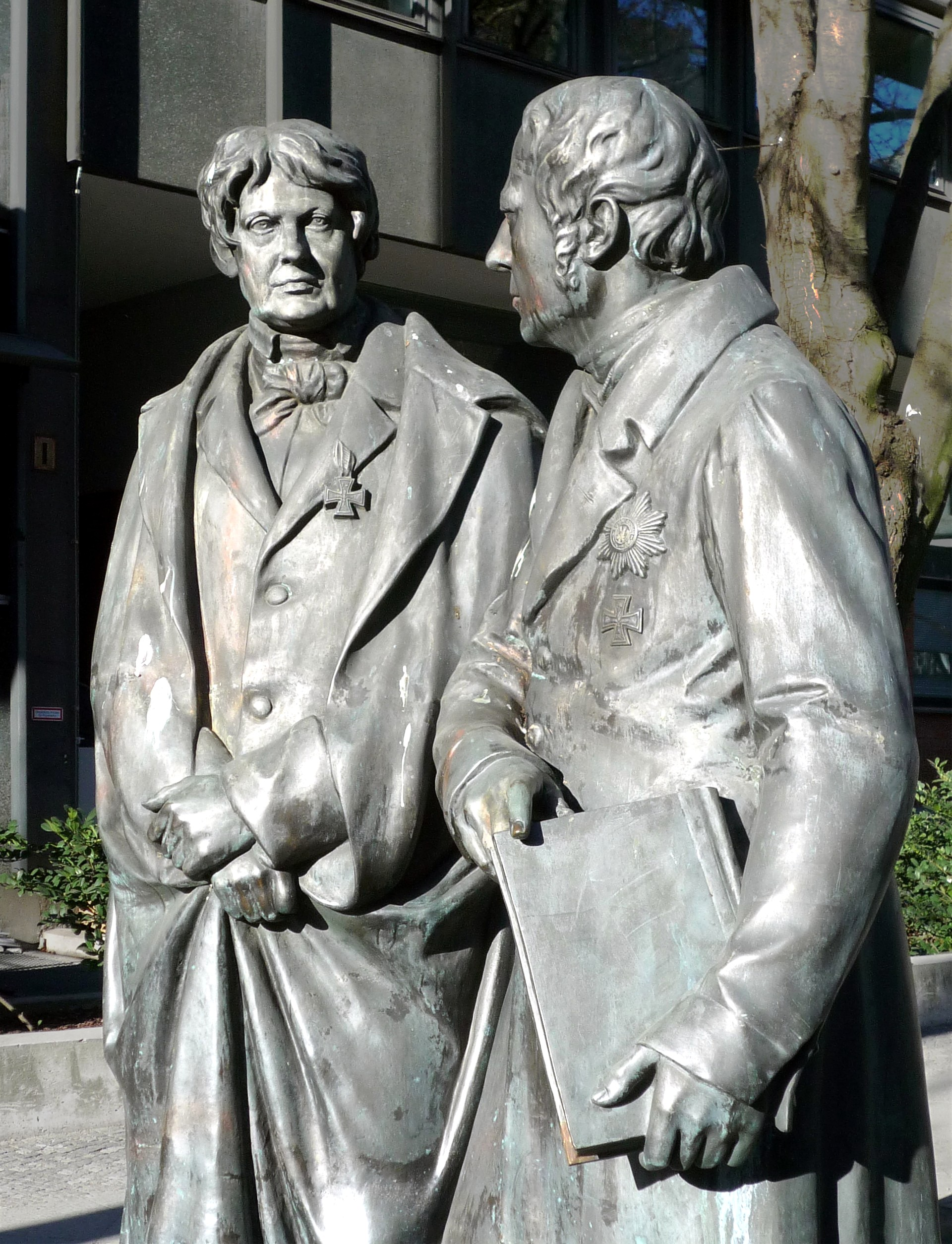 Statues of Wilhelm von Humboldt and Christian Peter Wilhelm Beuth in front of "Deutsches Institut für Normung (DIN)" (German Institute for Standardization), Burggrafenstraße in Berlin-Tiergarten (Germany). Sculptor: Gustav Blaeser (1813-1874). Partial view.